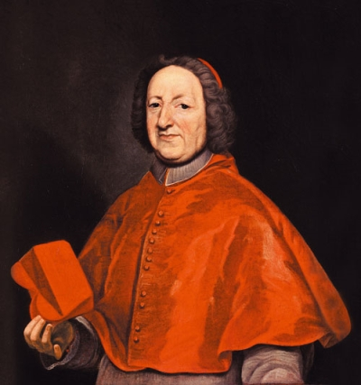 Giulio Alberoni (1664-1752), cardinal of the Roman Catholic Church and bishop of Malaga